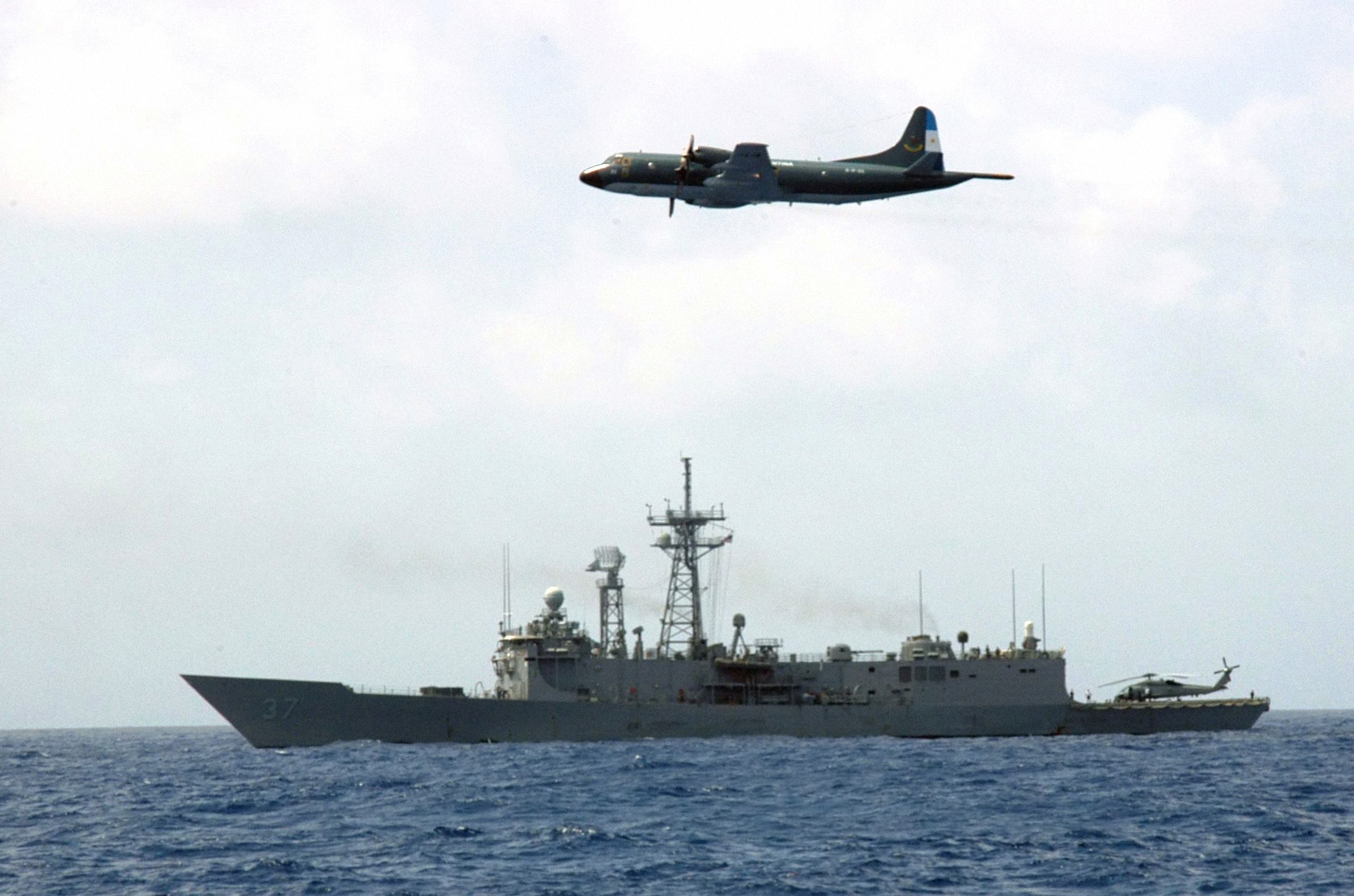 Gulf of Panama (Aug. 13, 2004) – The guided missile frigate USS Crommelin (FFG 37) and an Argentinean P-3 aircraft patrol the northern approach to the Panama Canal in search of a "suspect" vessel in support of PANAMAX 2004. Naval forces from eight countries are participating in PANAMAX 2004, a naval exercise designed to build up a coalition response to security threats against the Panama Canal. PANAMAX is conducted under the direction of Commander Naval Forces Southern Command and involves the identification, monitoring and interdiction of vessels posing a simulated terrorist threat to the Canal. The multinational force includes surface and air assets from Argentina, Colombia, Chile, Dominican Republic, Honduras, Panama, Peru and the United States operating in the north and south approaches to the Canal. PANAMAX’s realistic scenario develops not only interoperability among naval forces but also joint and inter-agency interoperability as the naval forces work together with other services and agencies of Panama to ensure the safety of the Canal and to protect freedom of navigation. U.S. Navy photo by Lt. Ligia Cohen (RELEASED)